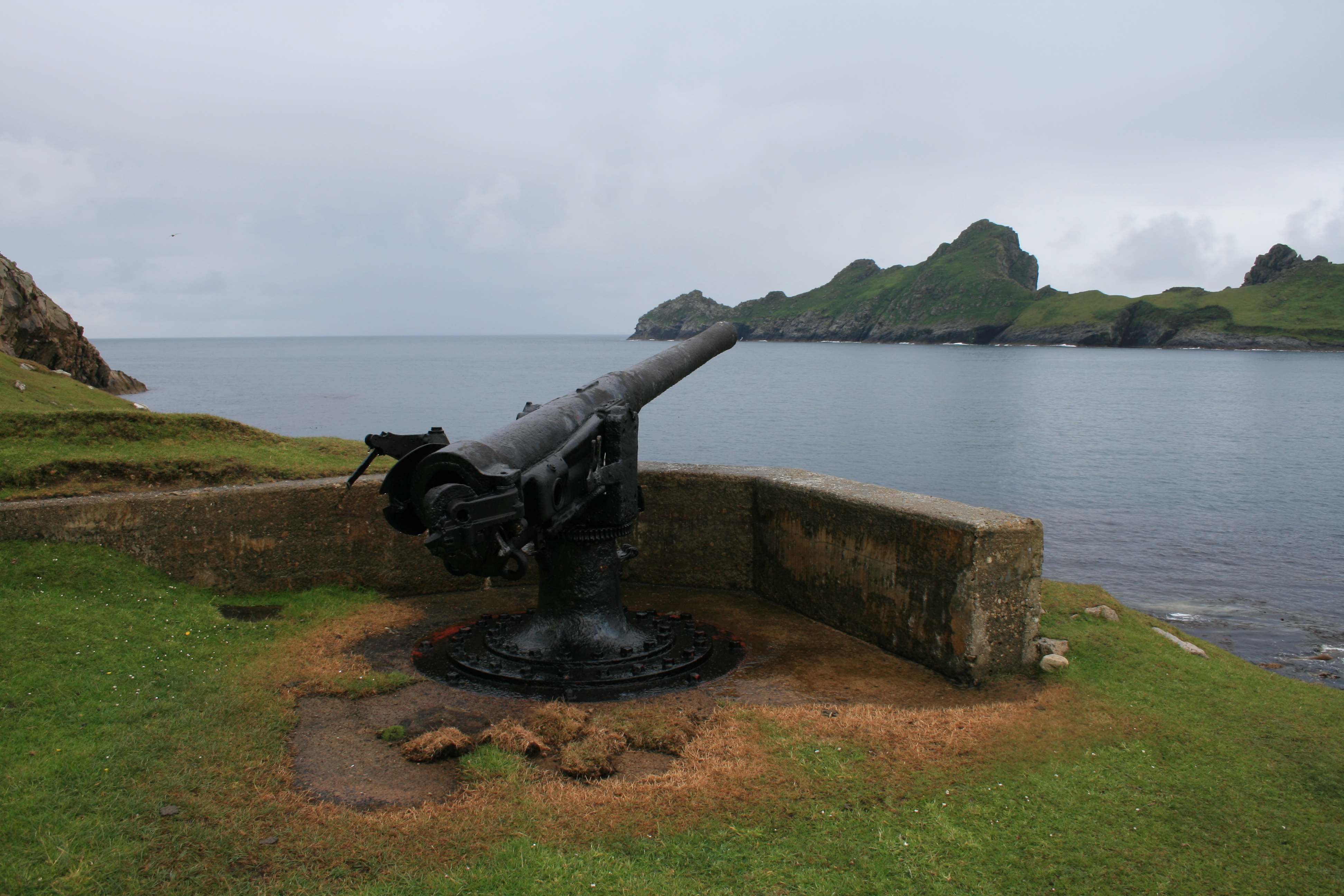 Gun with Dùn and Loch Hiort, St Kilda, Scotland. This appears to be a QF 4-inch Mark III gun. See also : File:QF 4 inch Mk III gun St Kilda Geograph 737389 06c6fb1d.jpg